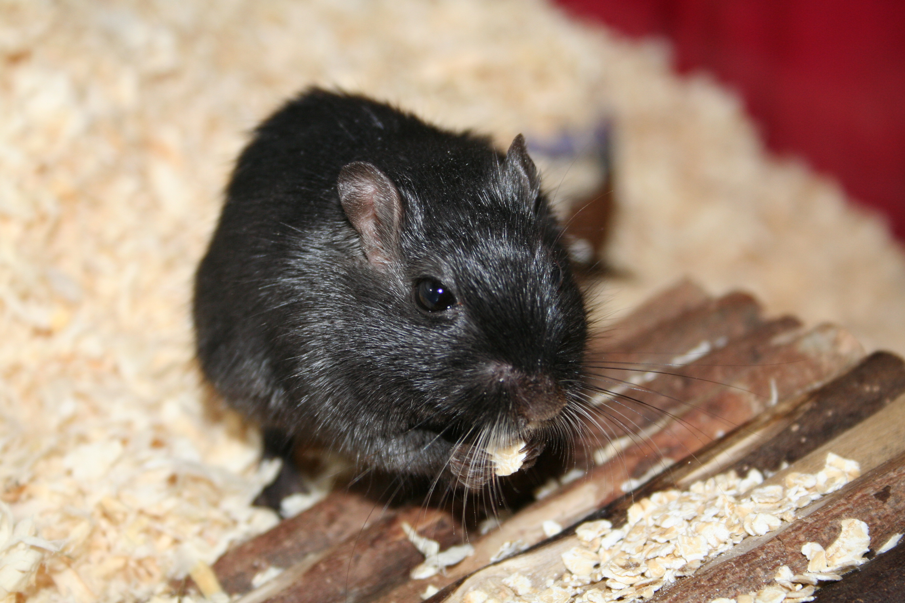 A black version of the Meriones unguiculatus eating oatmeal.